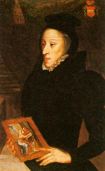 Archduchess Magdalena of Austria (1532-1590)